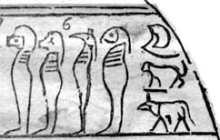 Figure No. 6 from Joseph Smith Hypocephalus published as the Facsimile No. 2 in the Book of Abraham.